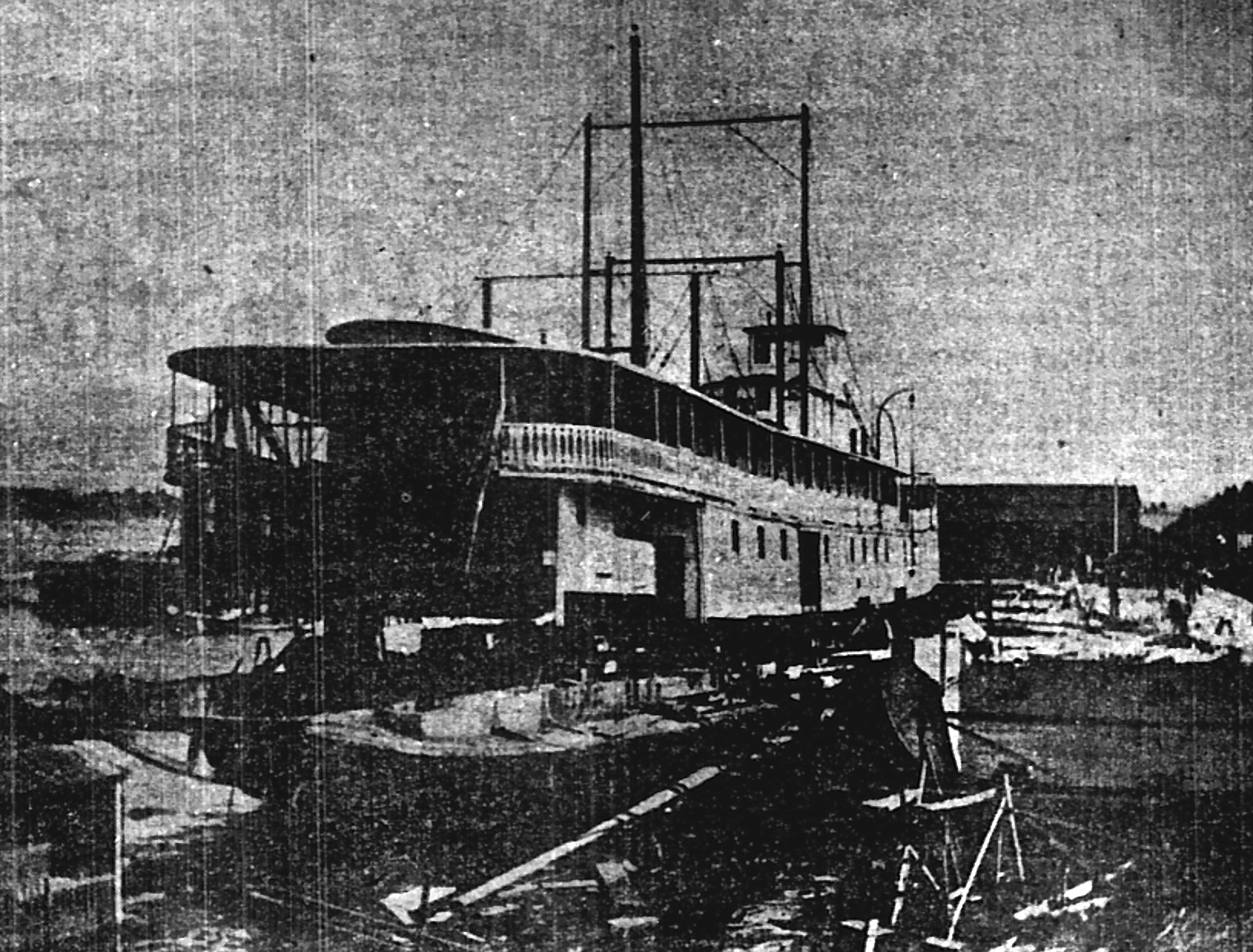 The sternwheeler Telephone undergoing reconstruction in June 1903. The upper works called the "house" were being shifted over to be reinstalled on to a newly built hull.